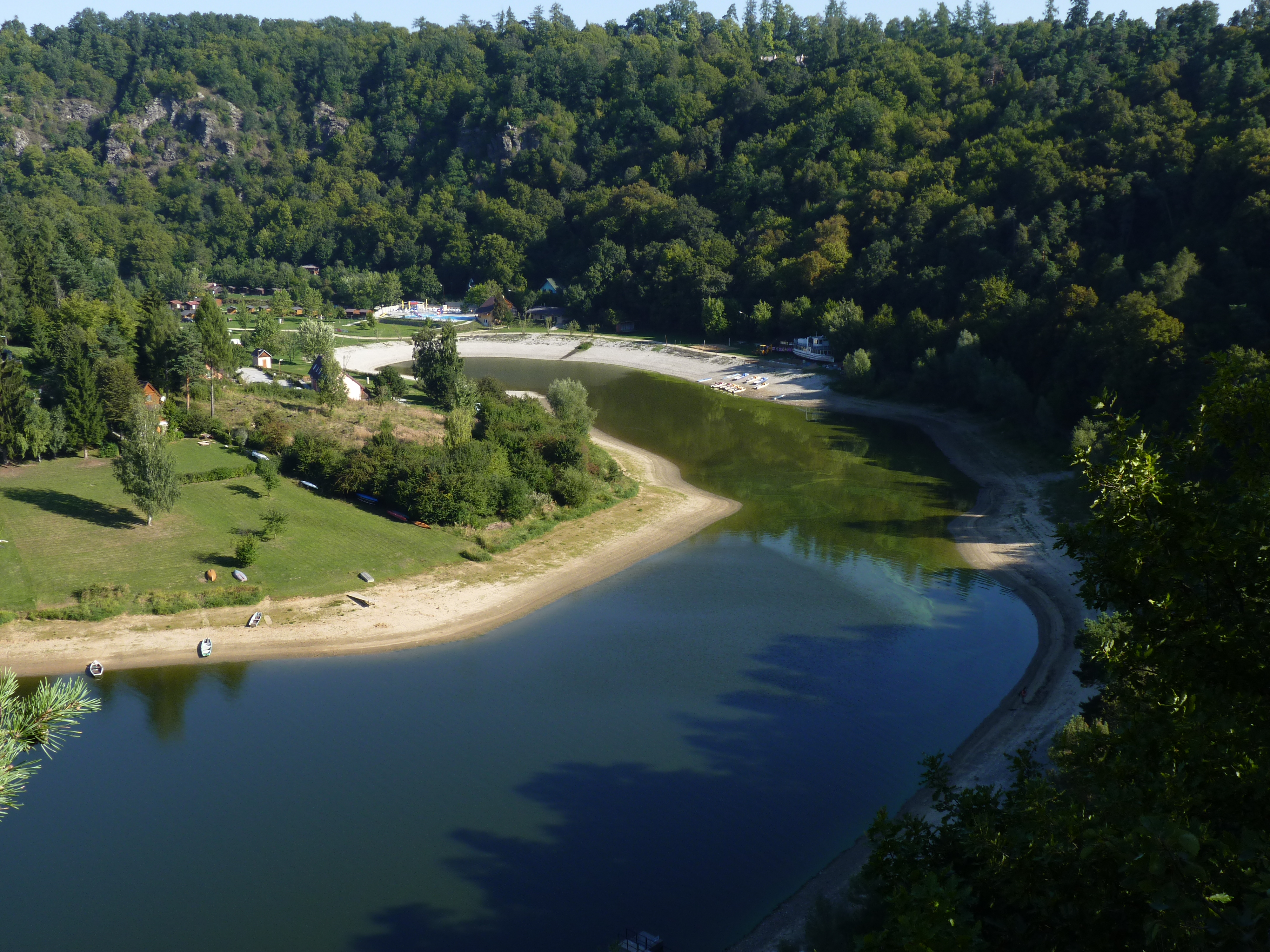 Bítov, Znojmo District, South Moravian Region, Czech Republic